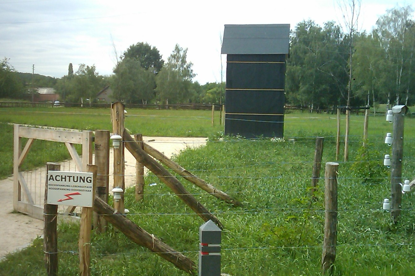 Molenbeersel - Kinrooi